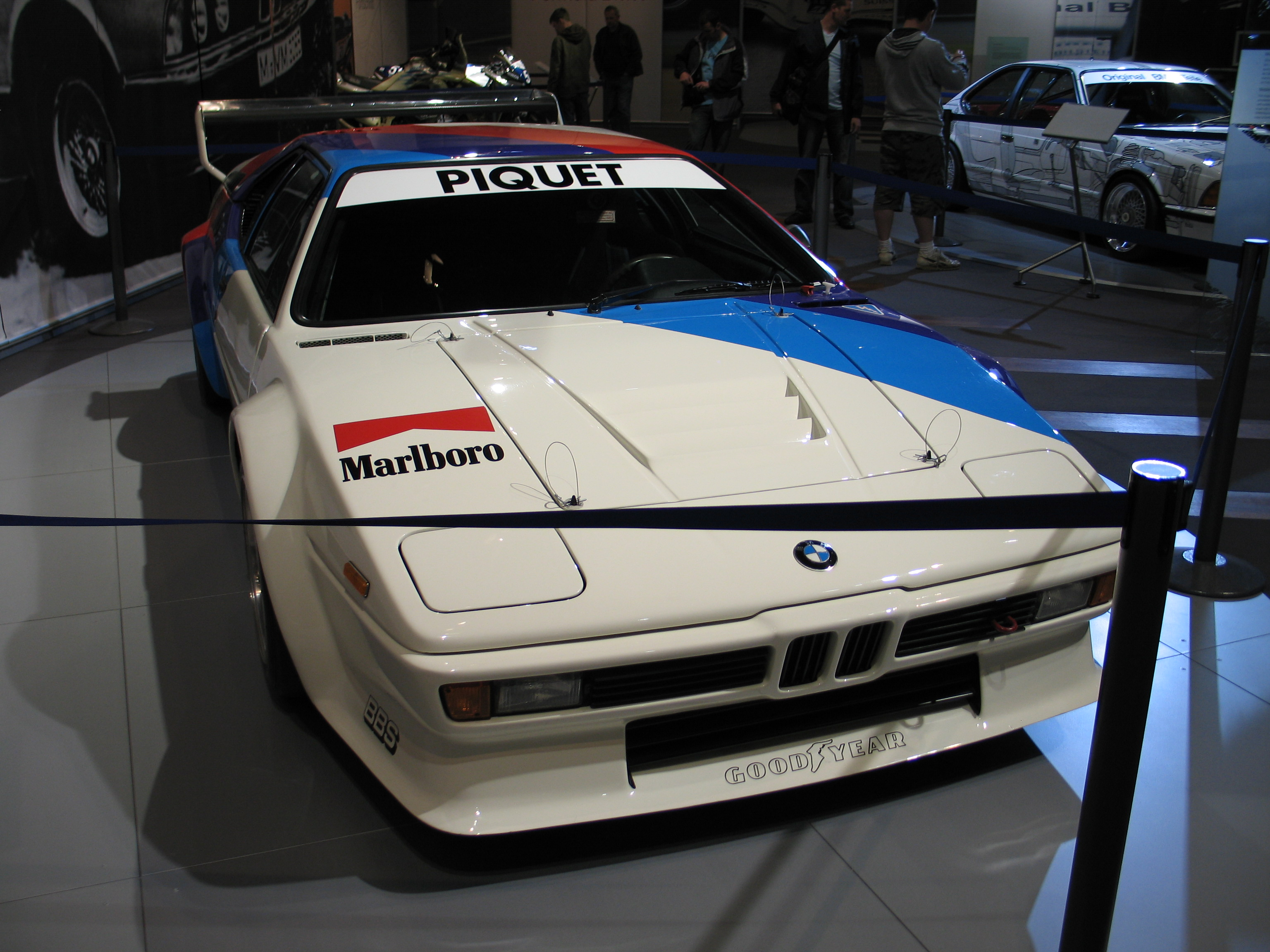 Nelson Piquet's BMW M1 Proca at the Nurburgring Museum.